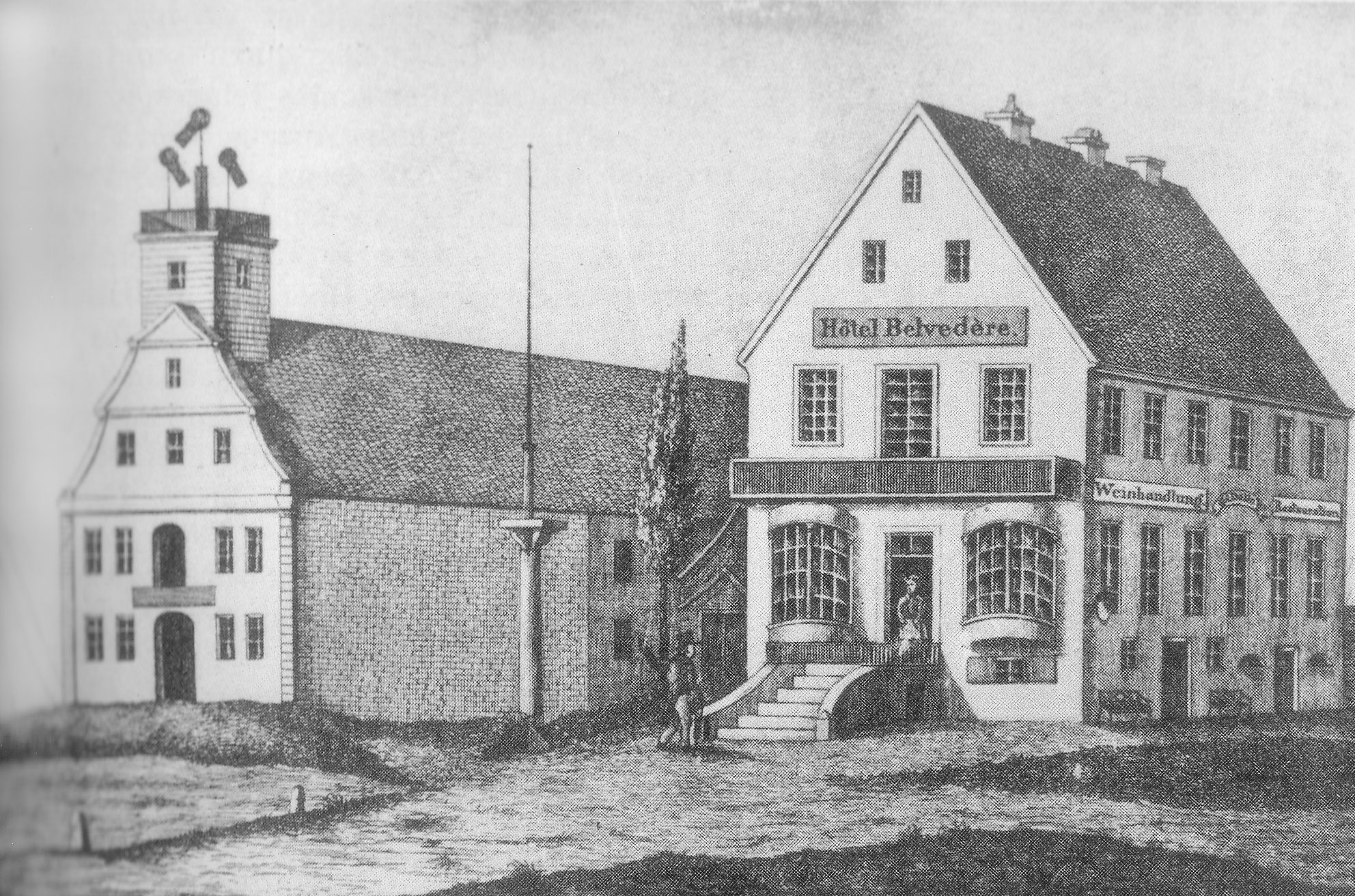 Optical Telegraph between Cuxhaven and Hamburg: Cuxhaven Station